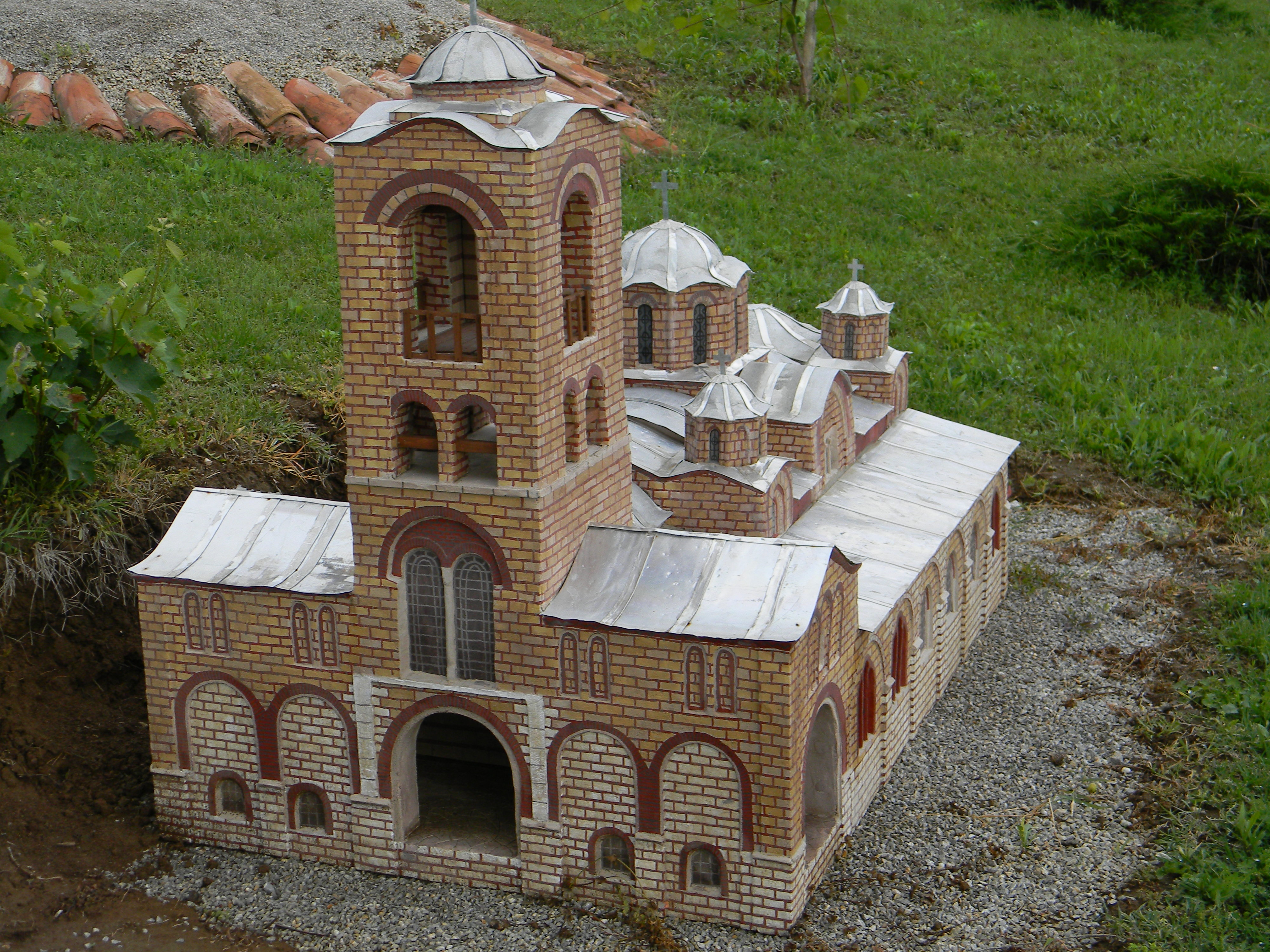 Miniature park in Despotovac, Serbia